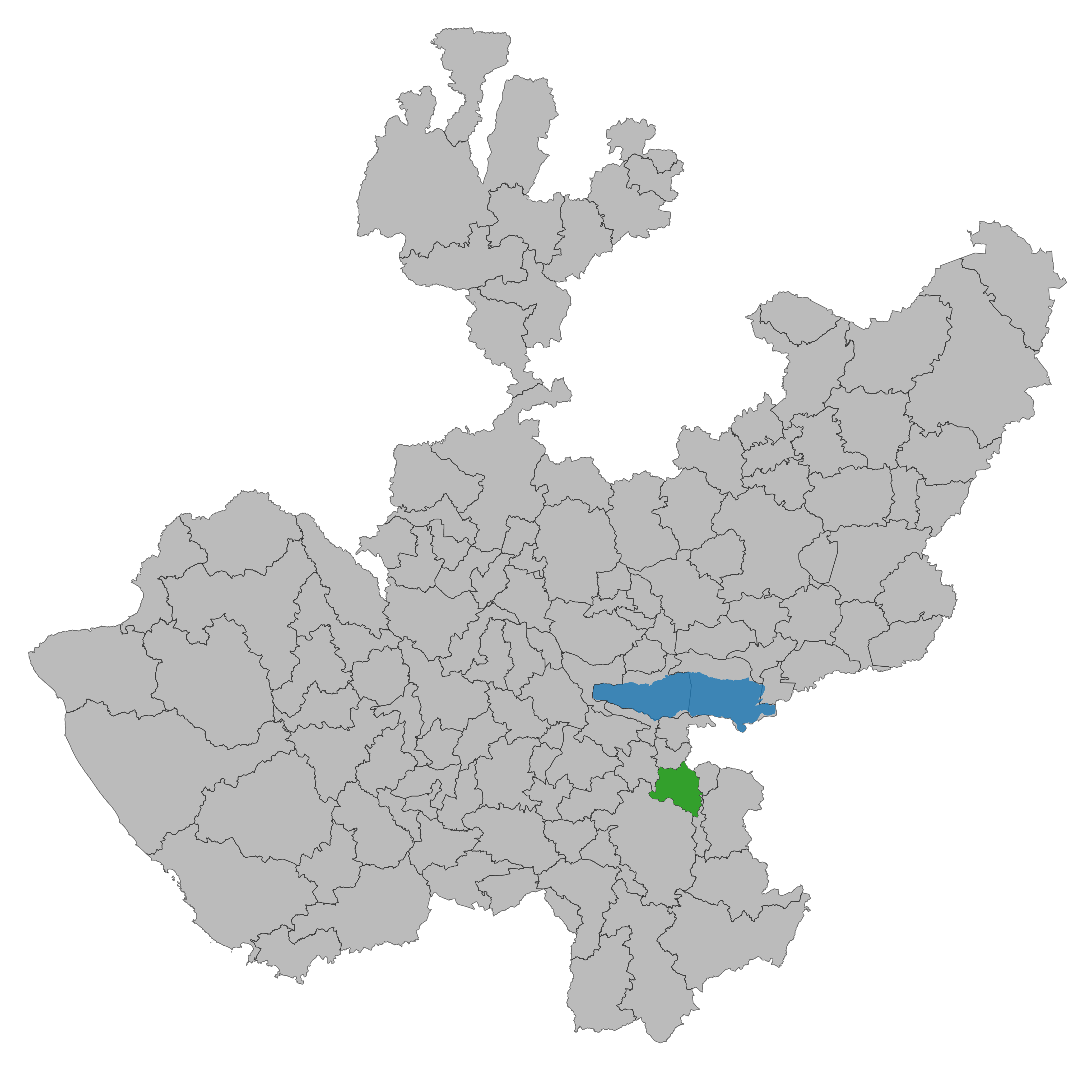 Municipality of Jalisco. Prepared with the software QGIS version 2.8.2 Wien & with information of SCINCE 2010 version 05/2013